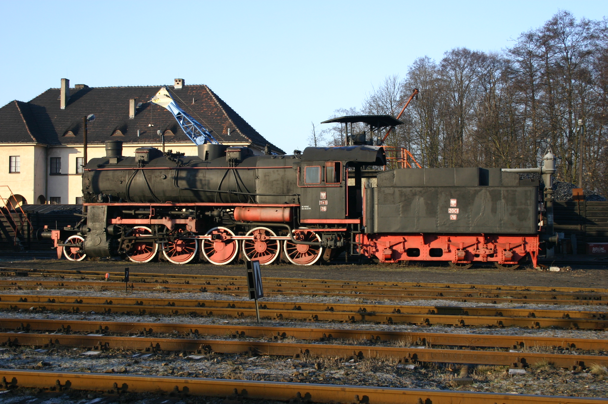 Locomotive Ty1-76 Parowozownia Wolsztyn (former Prussian KPEV G12 Elberfeld 5562, DRG 58 1297)